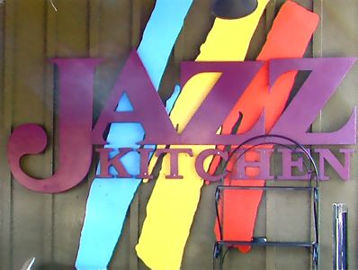 An image of the sign outside the building of the Jazz Kitchen, a jazz club in Indianapolis, Indiana